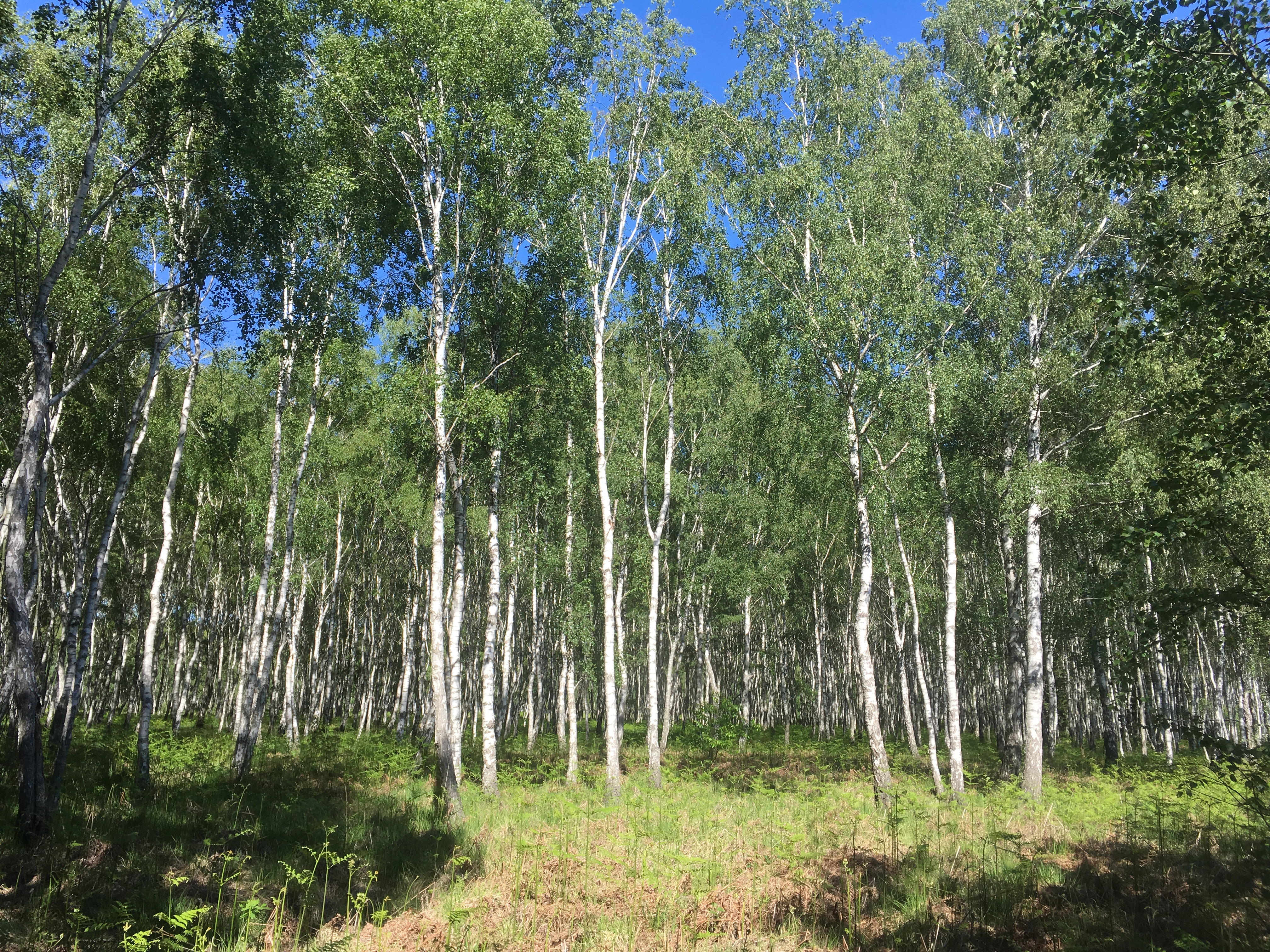 Nature reserve area Hermannsdorf, near Weißwasser/O.L.